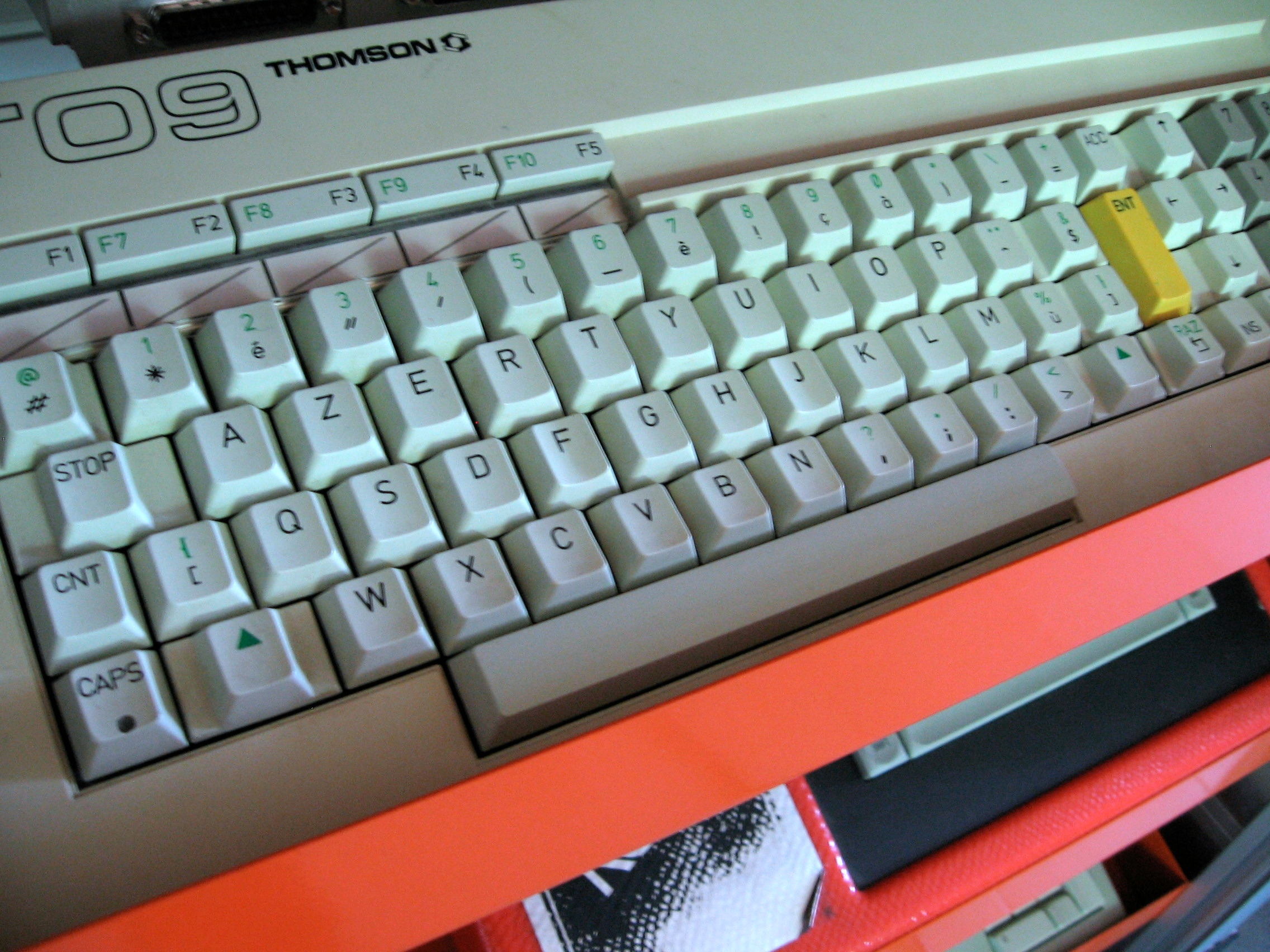 Closeup of the Thomson TO9 keyboard. Note the yellow Enter key.